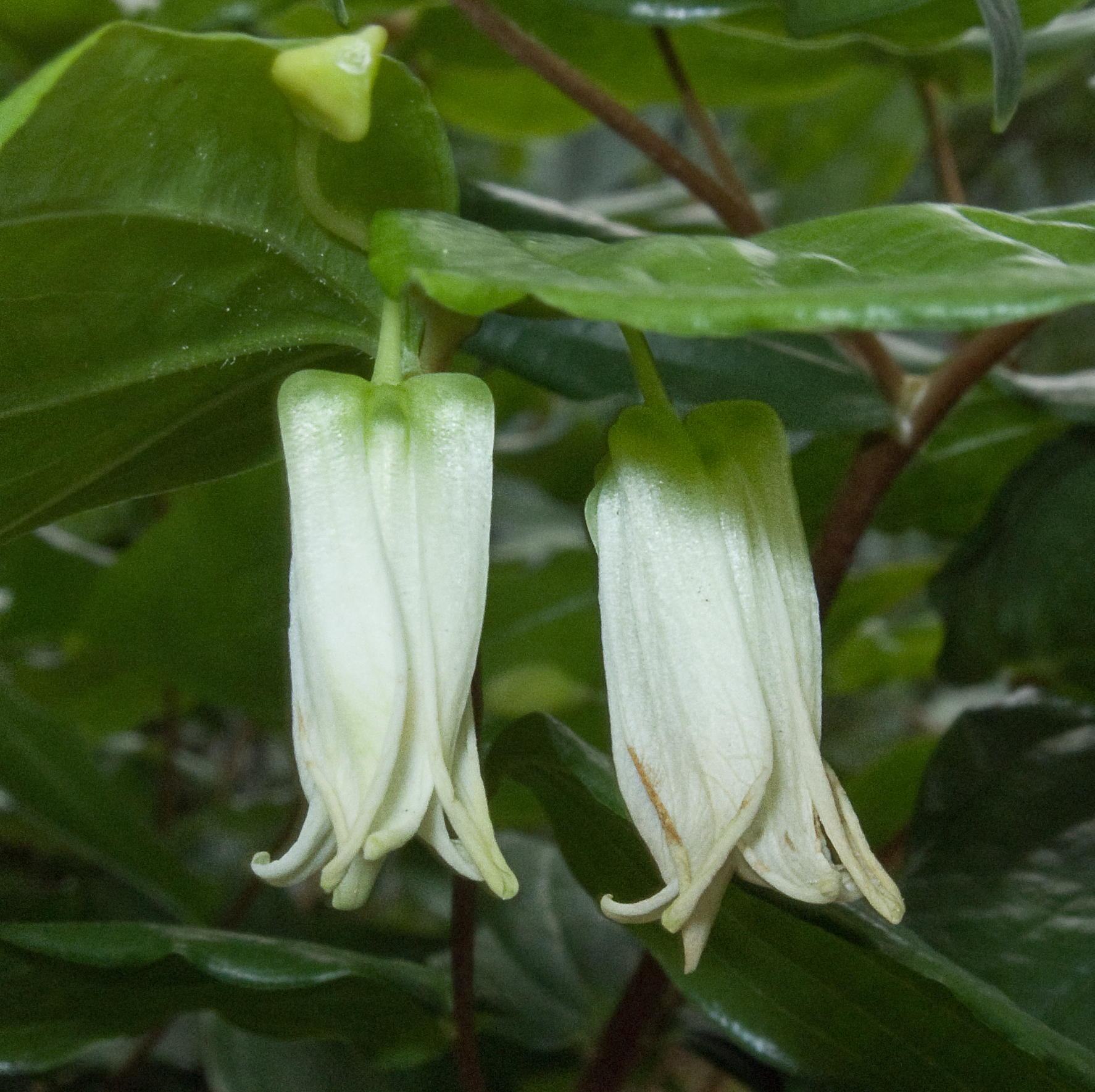 Closeup of flowers of Prosartes smithii (in cultivation at the Birmingham Botanical Gardens, Birmingham, UK)